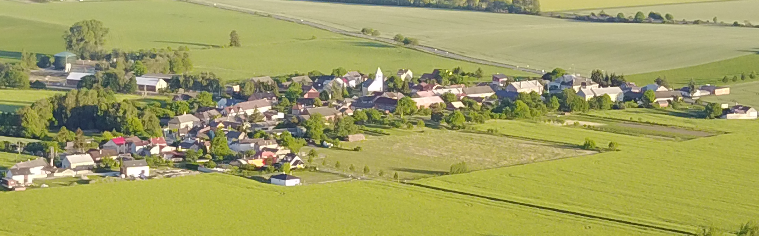 Rozvadovice, part of Litovel, the Czech Republic.